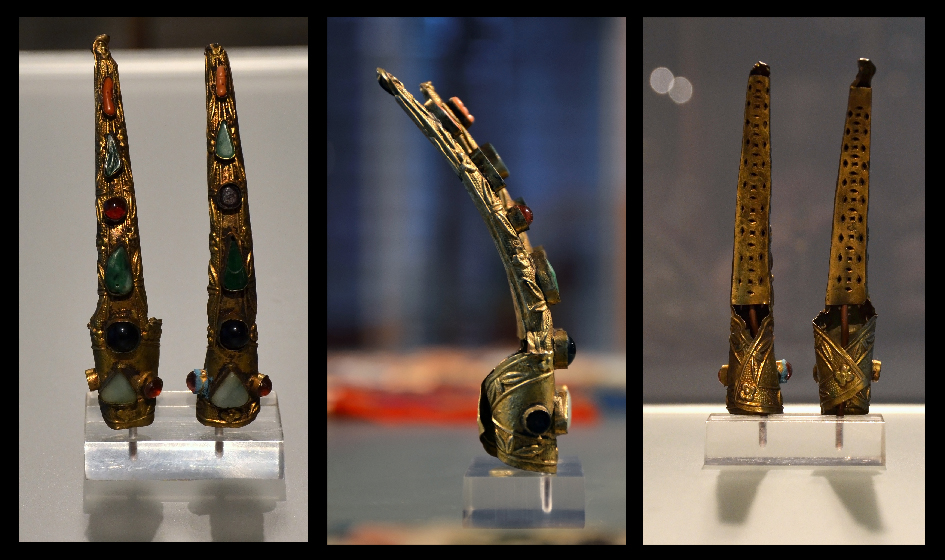 Pair of finger nail protectors, front- side- and back- view ; brass sheet hammered, inlaid semi precious stones. China, Qing Dynasty , 1900-1910. Museum für Ostasiatische Kunst in Cologne ( gift by Helga Fisher ).